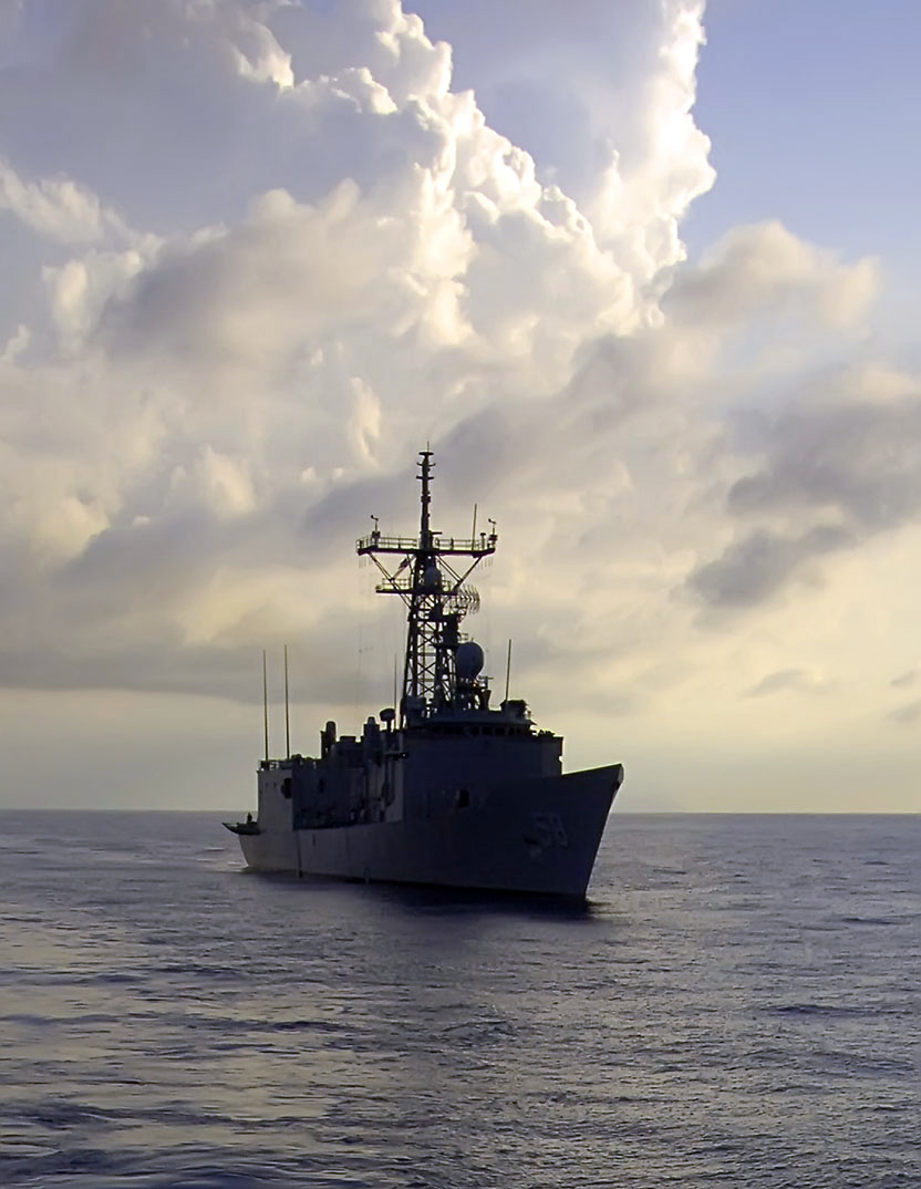 CARIBBEAN SEA (Sept. 2, 2007) - Guided-missile frigate USS Samuel B. Roberts (FFG 58) patrols the waters off the coast of Panama during PANAMAX 2007. Civil and military forces from 19 countries are participating in PANAMAX 2007, a U.S. Southern Command joint and multi-national training exercise co-sponsored with the government of Panama, in the waters off the coasts of Panama and Honduras. U.S. Navy photo by Mass Communication Specialist 2nd Class Todd Frantom (RELEASED)